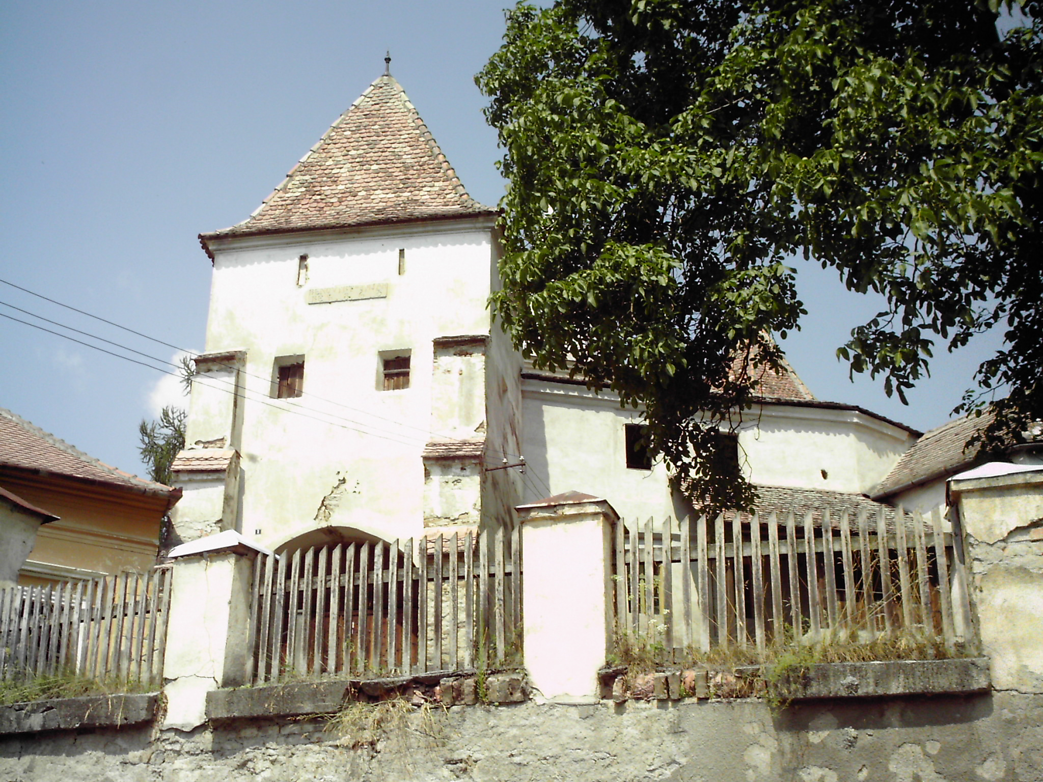 Gate tower of the fortified church in Curciu, Romania